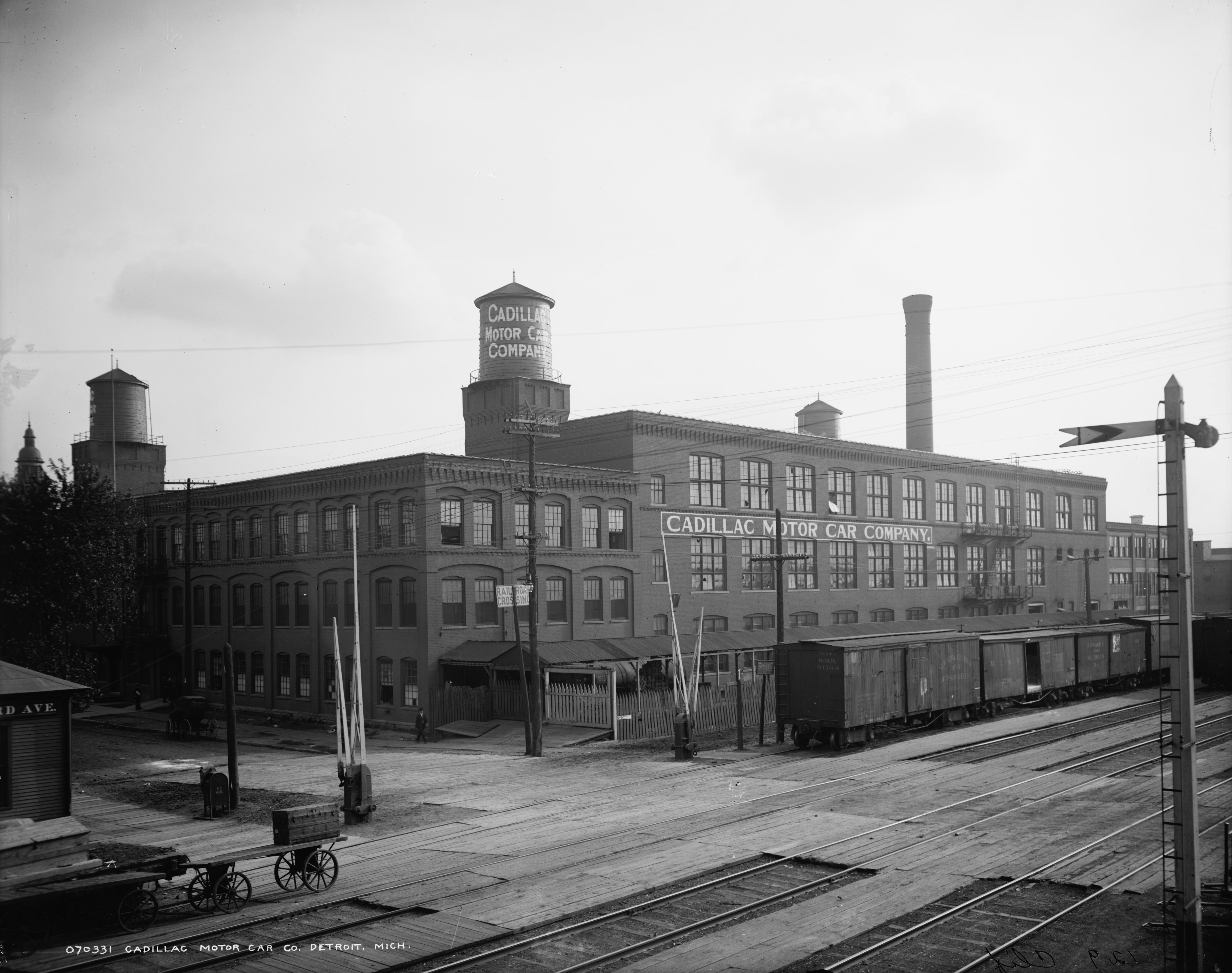 Photograph ca. 1910 of the Cadillac main assembly plant at 450 Amsterdam Street and Cass Avenue in Detroit, Michigan. The plant today lies within the New Amsterdam Historic District.